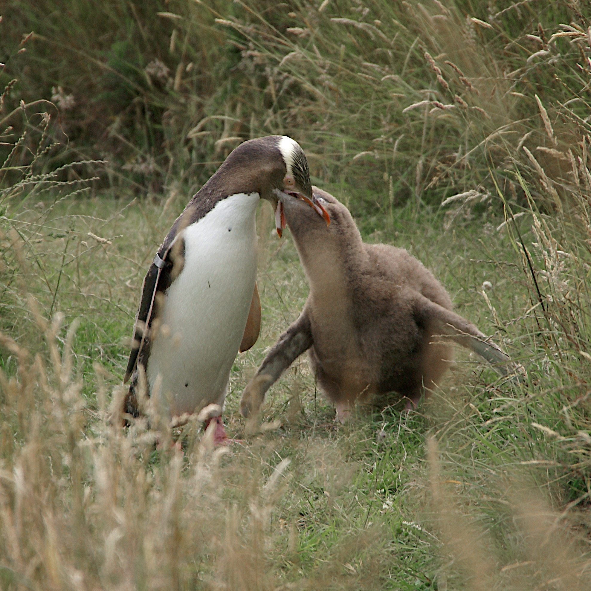 An adult Yellow-eyed Penguin feeding a chick in Dunedin, New Zealand.